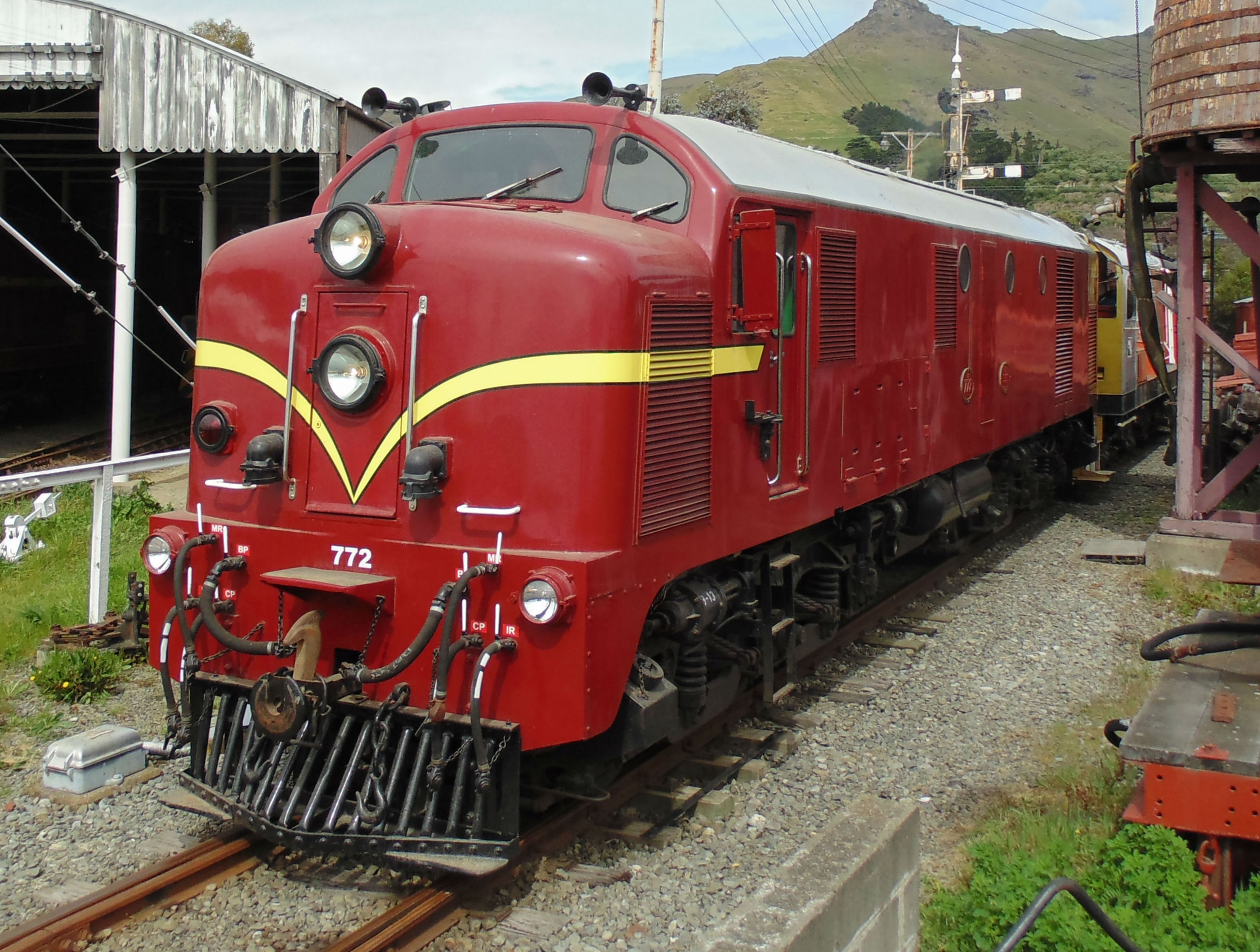 TrainboyMBH